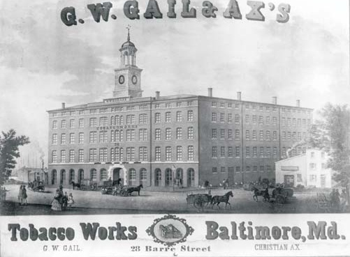 The Gail'sche Cigars Manufactury in Baltimore - advertising from the end of the 19th century.